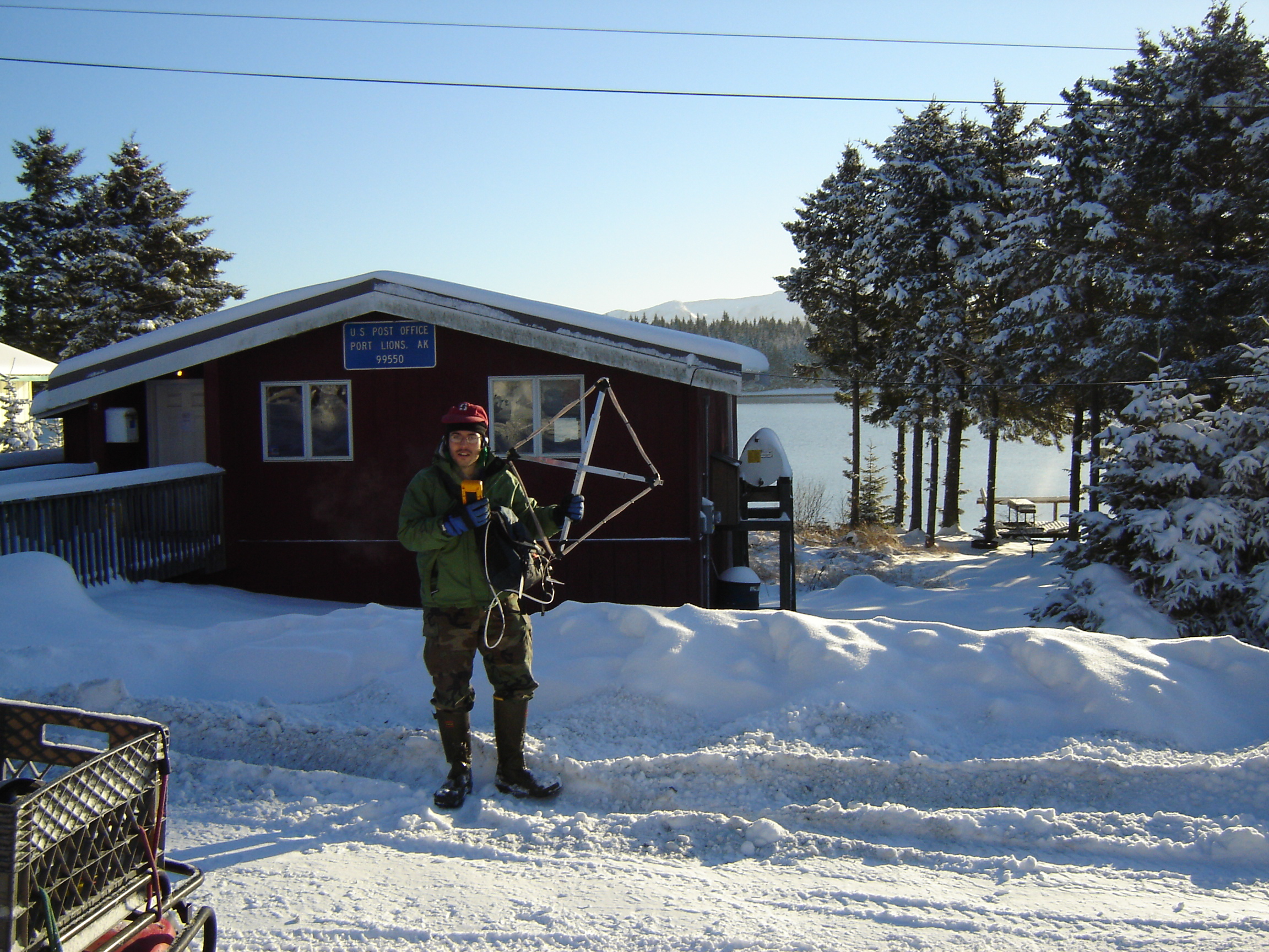 This photograph shows me, a radio-scientist from Stanford University, near our field site in Port Lions.